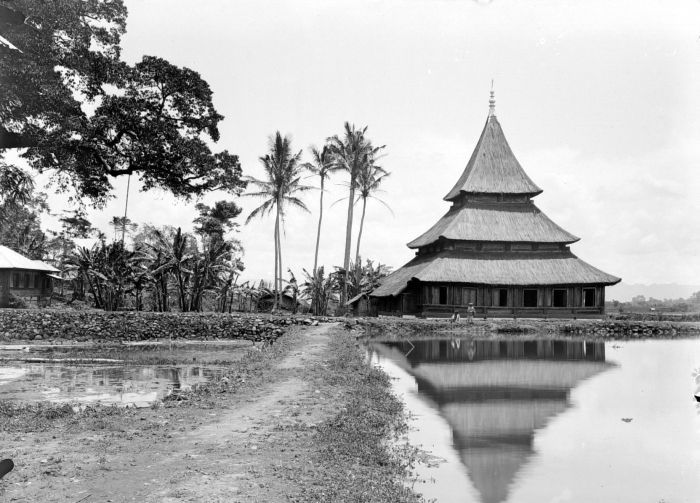 Mosque